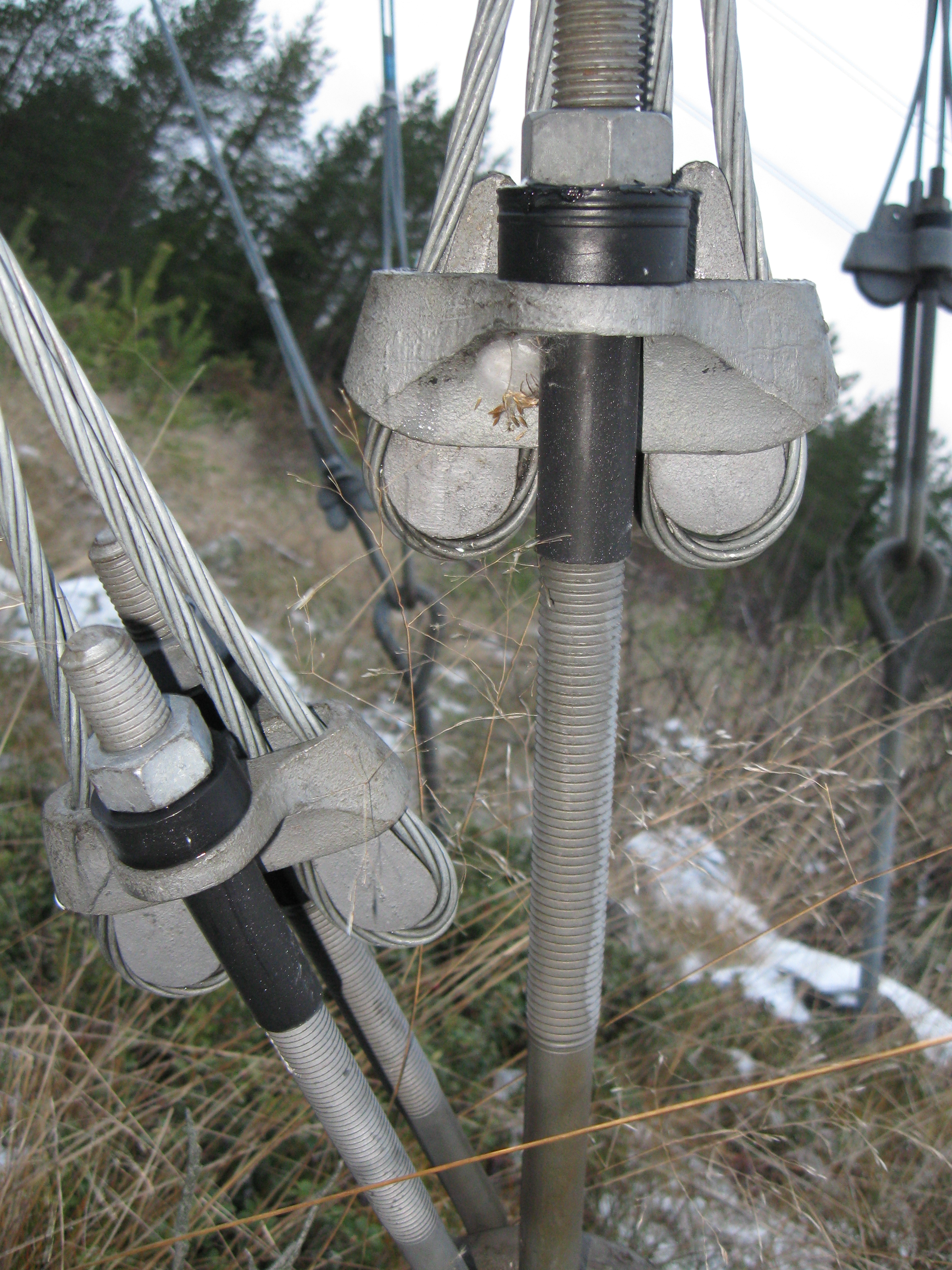 End connections of steel wire ropes securing electricity line poles.